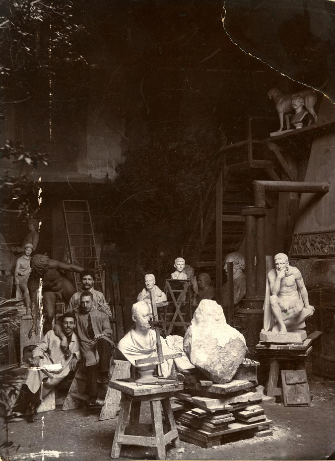 In Vilhelm Bissen's studio, 1893, in Civiletatens Materialgård in Copenhagen, Denmark. To the rear Georg Jensen, in the middle Johan Einar Otto and in the foreground Siegfried Wagner.